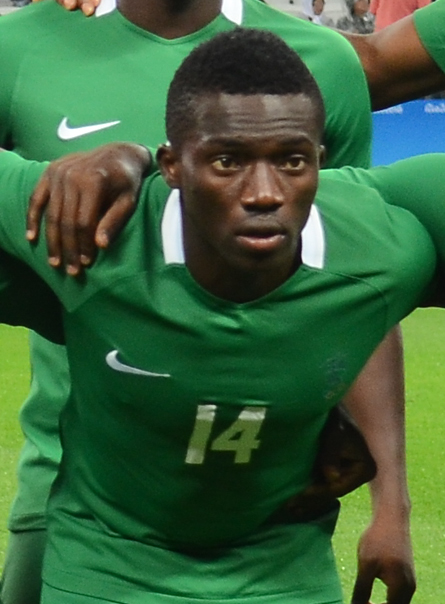 São Paulo - Colômbia vence a Nigéria por 2x0 na Arena Corinthians (Rovena Rosa/Agência Brasil)